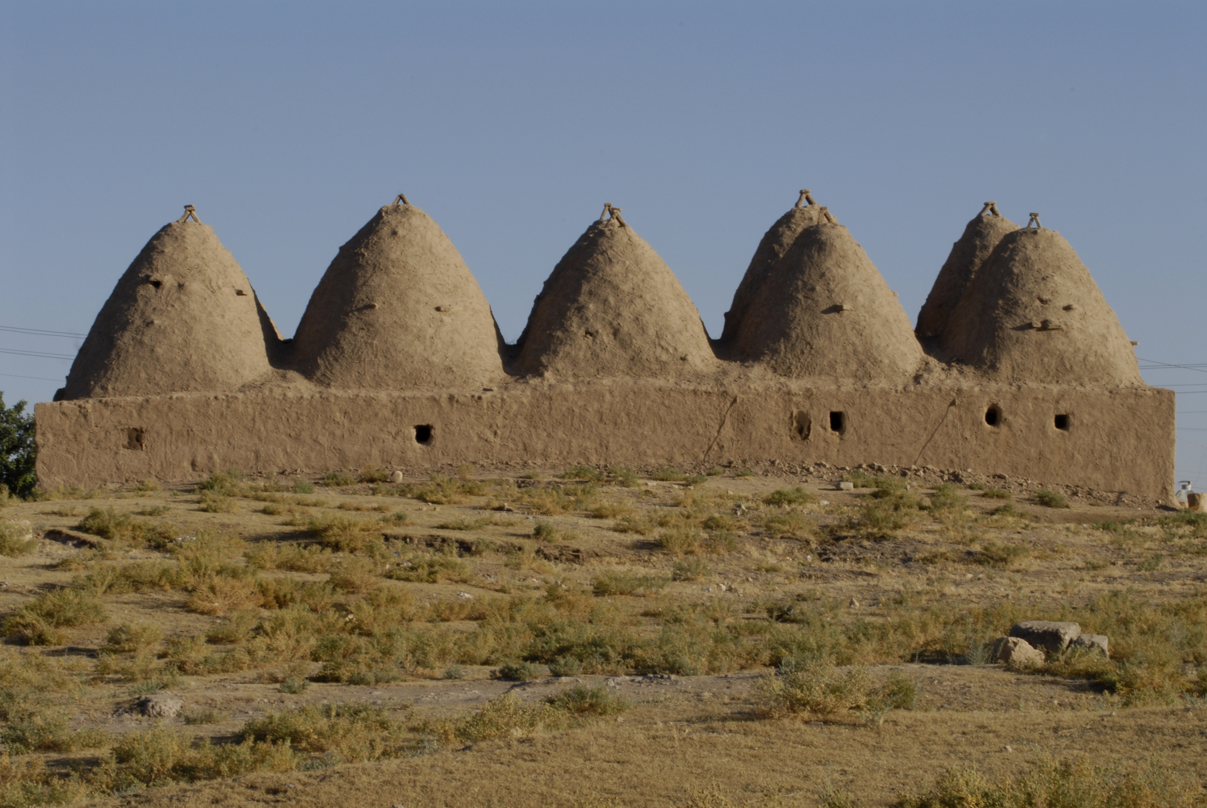 Harran beehive houses